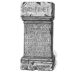 Altar dedicated to Genius of our Lord and of the standards of the First Cohort of Vardulli and of the Unit of Scouts of Bremenium (numerus exploratorum Bremeniensium), AD 238-241 (High Rochester, GB), found 1852.